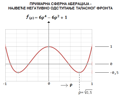 ПРИМАРНА СФЕРНА АБЕРАЦИЈА - НАЈВЕЋЕ НЕГАТИВНО ОДСТУПАЊЕ ТАЛАСНОГ ФРОНТА